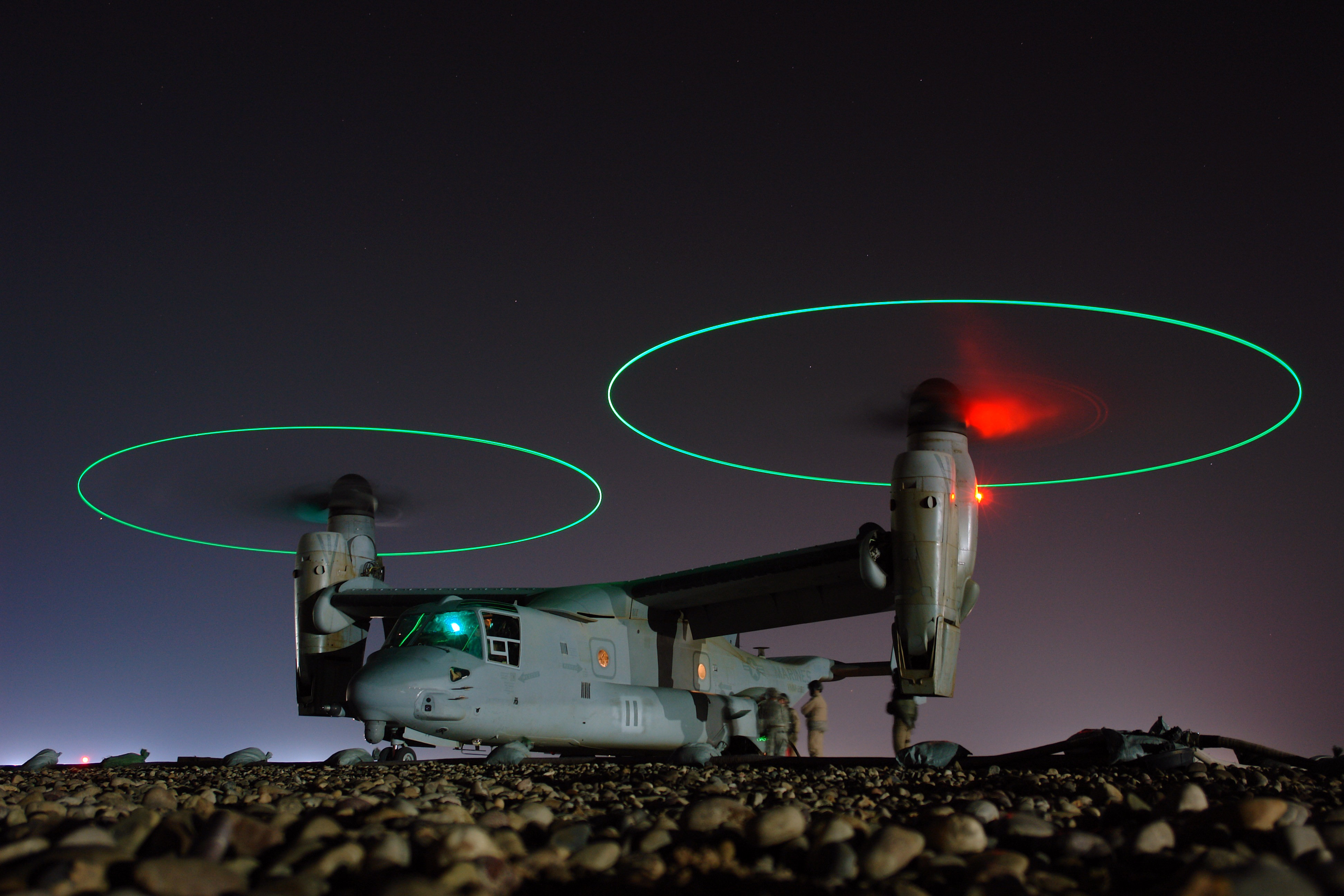 An MV-22 Osprey vertical-lift aircraft is refueled before a night mission in central Iraq.